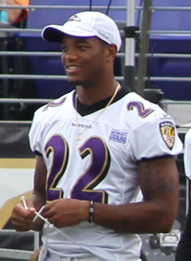 M&T Bank Stadium August 2011